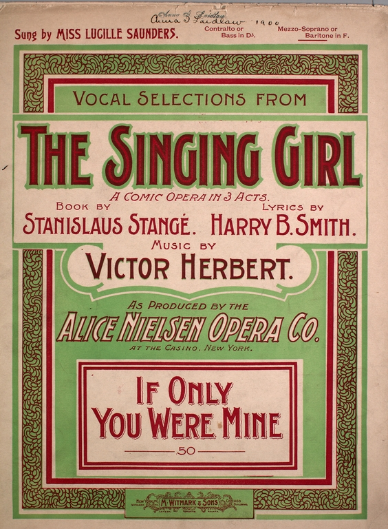 1899 score for The Singing Girl